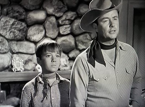 American actors Harper Carter and Tim Holt in "Gunplay", 1951 Western film.